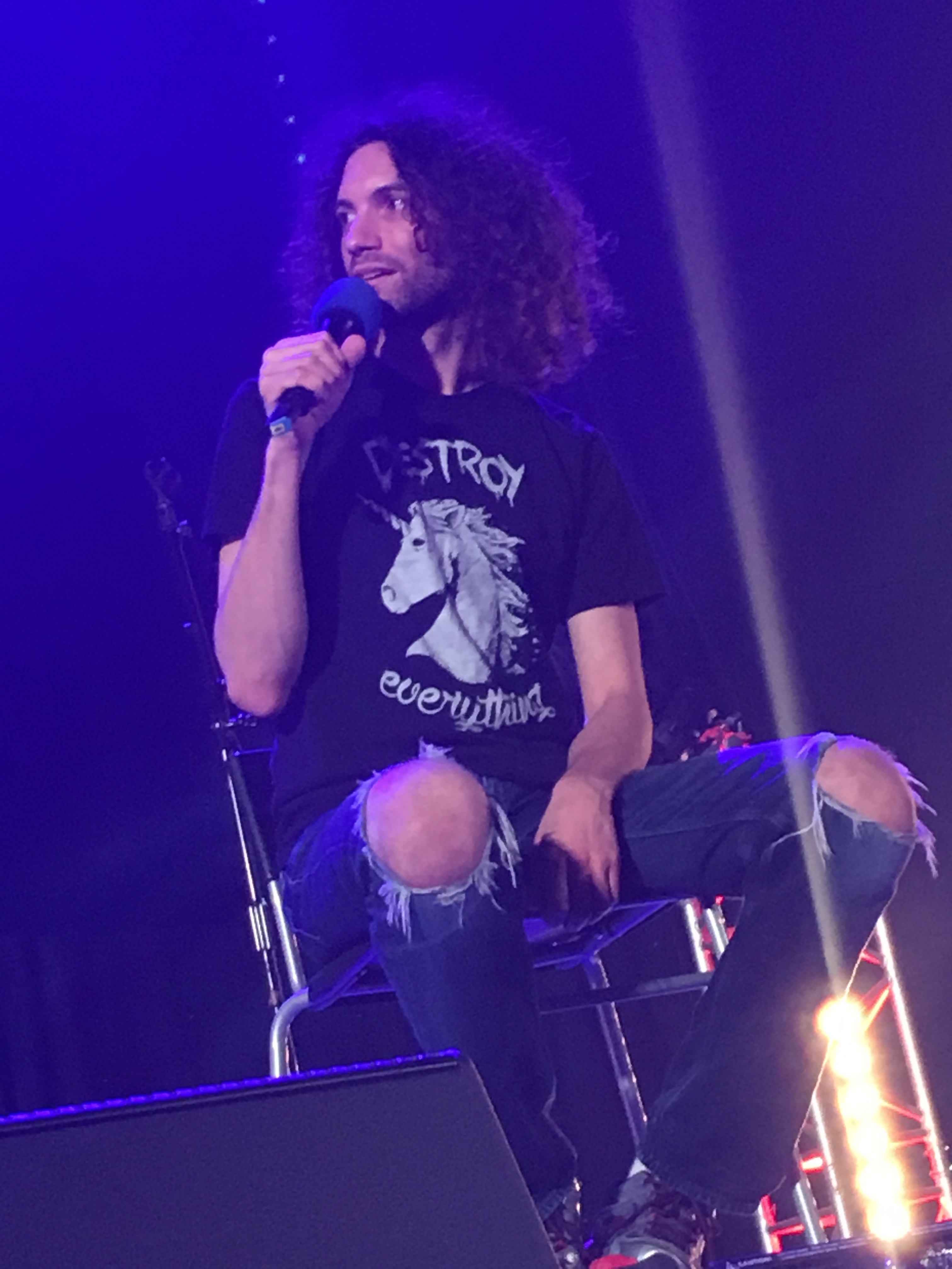 Dan Avidan at the live show of 'Ready Player 3 feat. Game Grumps & Jacksepticeye' at the Hammersmith Apollo, London.